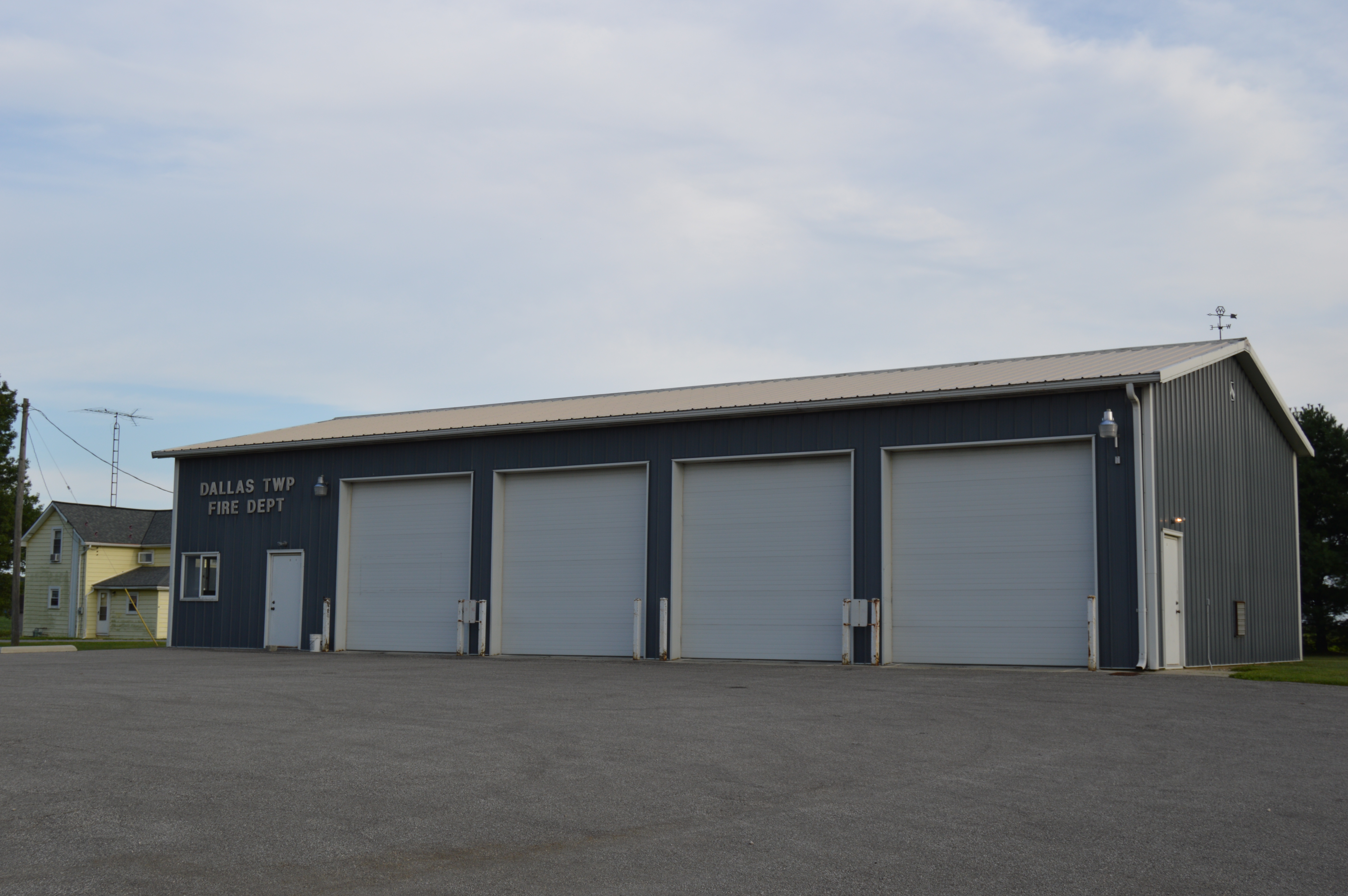 Front of the Dallas Township fire department, located at 1491 State Route 294 in Monnett, Ohio, United States.